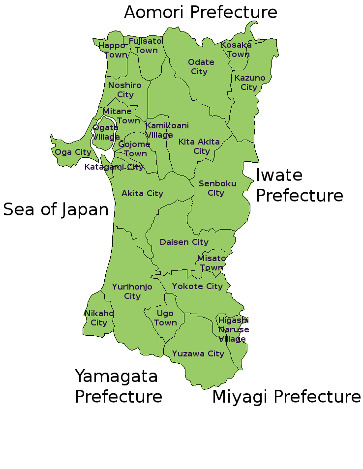 The cities of Akita Prefecture, Japan, as well as towns that aren't part of cities and villages that aren't part of towns or cities.